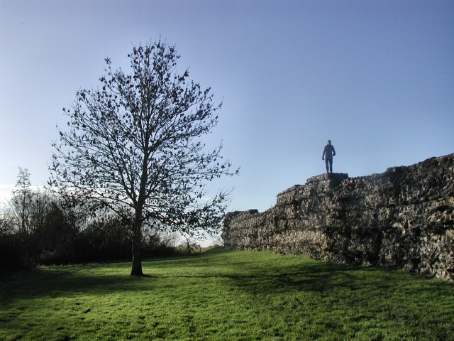 The wall of the Roman city of Calleva. Calleva, unlike so many Roman cities, has not formed the basis of a modern town but the remaining wall is impressive (the figure is 6' 1 tall)